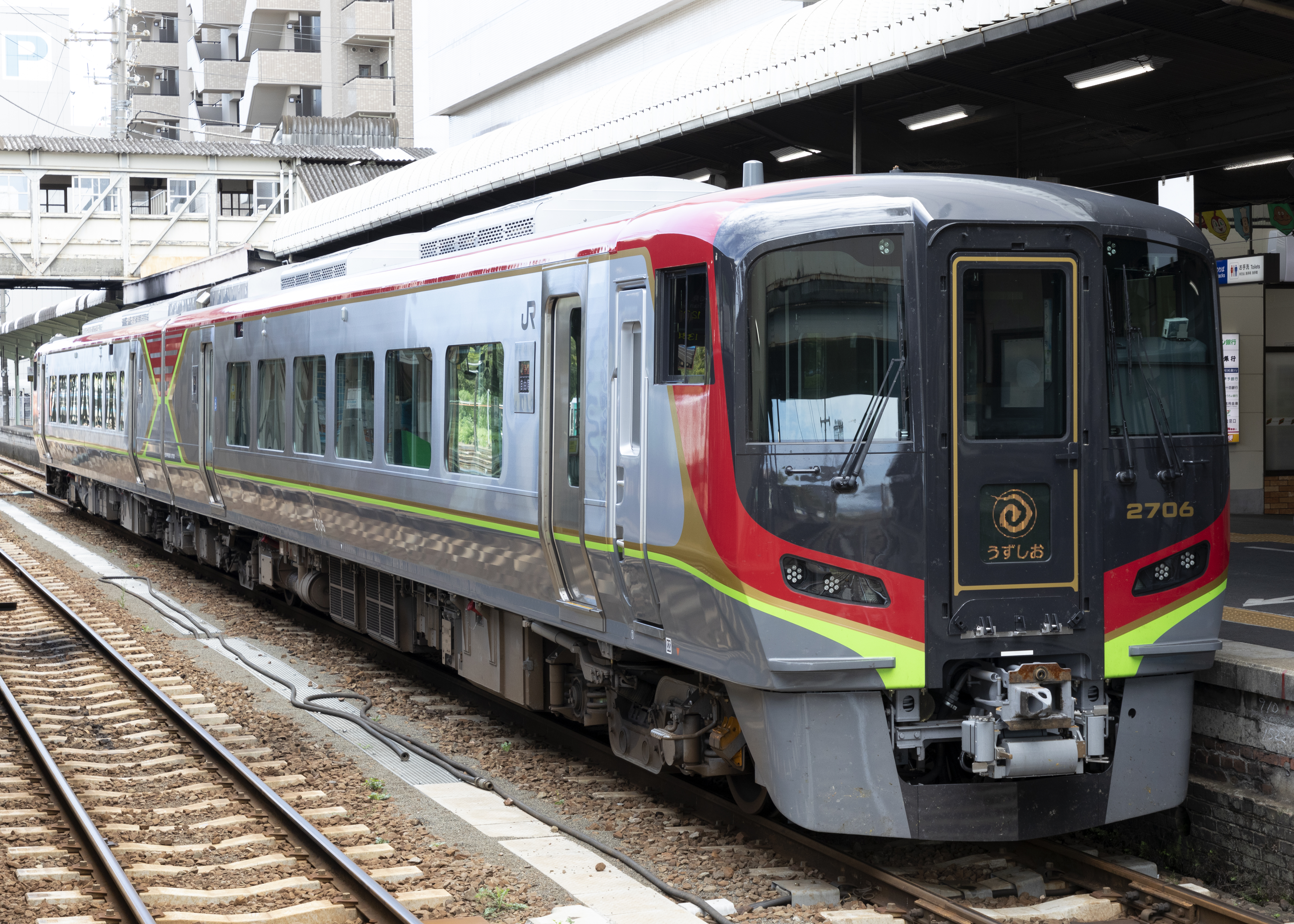 JR Shikoku 2700 series DMU sets 2706 and 2756 at Tokushima stations on the Kotoku Line on a Uzushio service